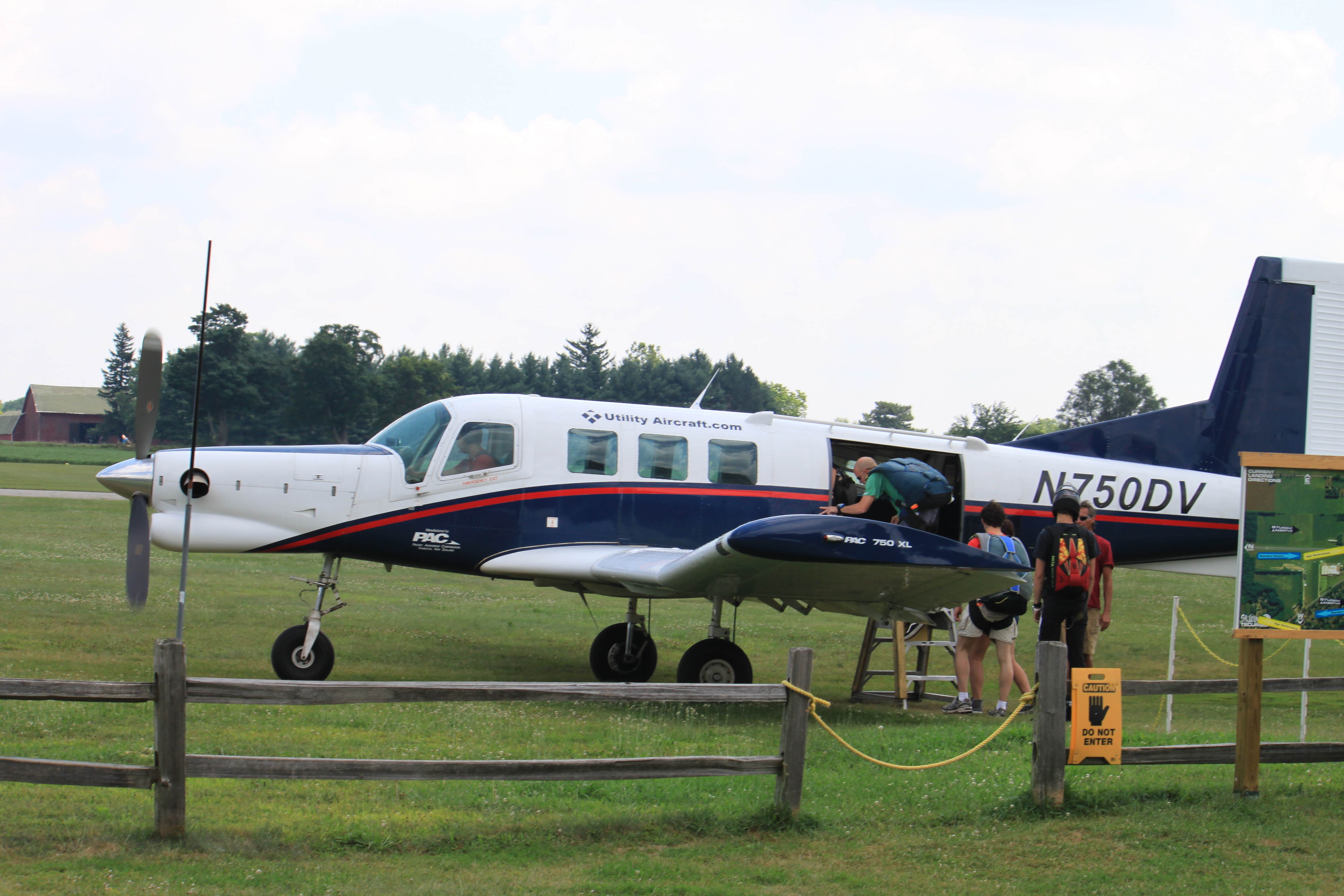 PAC 750 aircraft used for skydiving at Skydive Tecumseh, Tecumseh Michigan, flown by pilot Sam Kelly